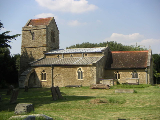 Church of England parish church of St Lawrence, Bradwell, Milton Keynes, seen from the south